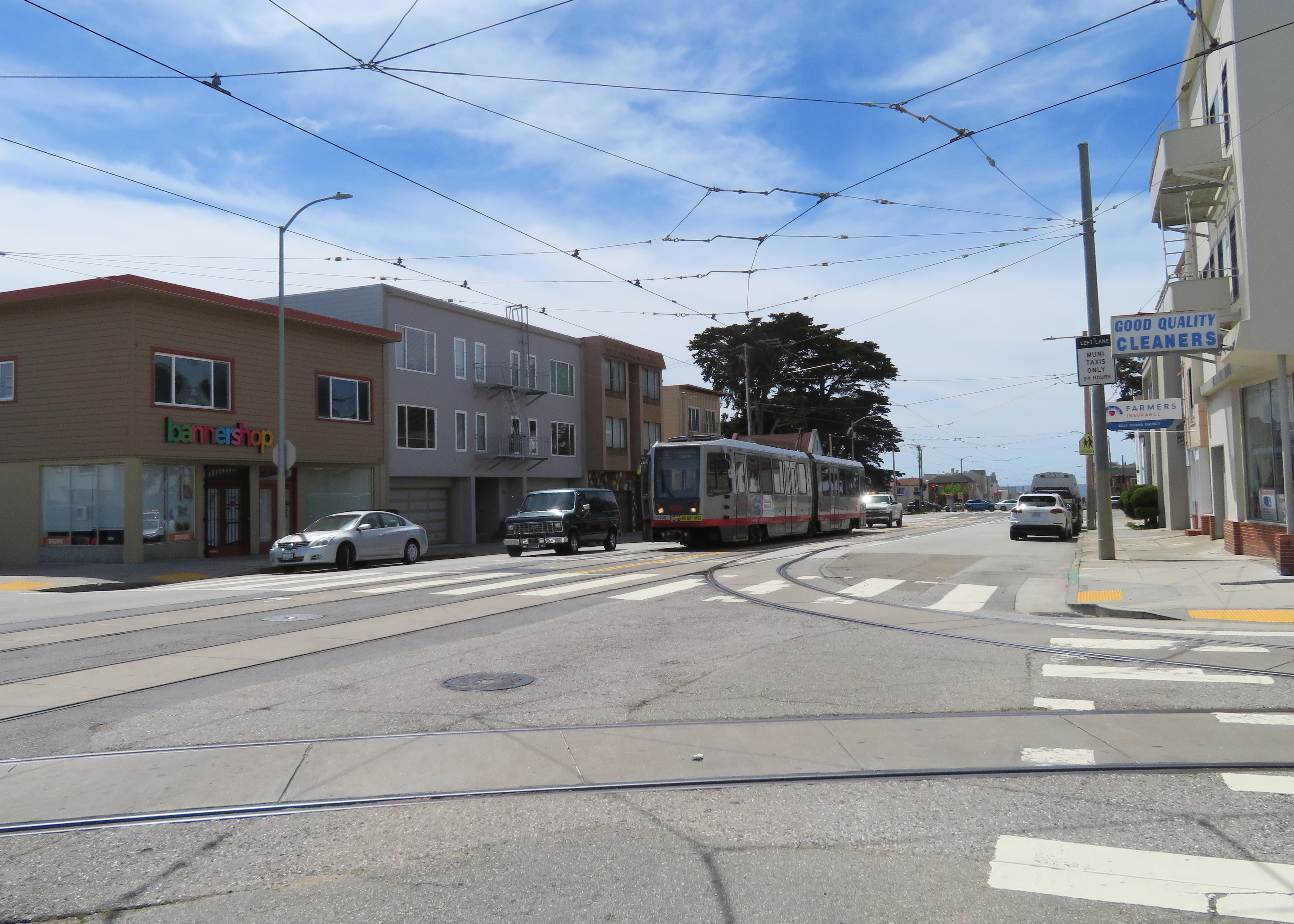 An inbound train stopped at Taraval and 35th Avenue in May 2018. The stop was discontinued earlier in the year; this train was short-turned at the crossover just west of 35th Avenue and was waiting before proceeding inbound.